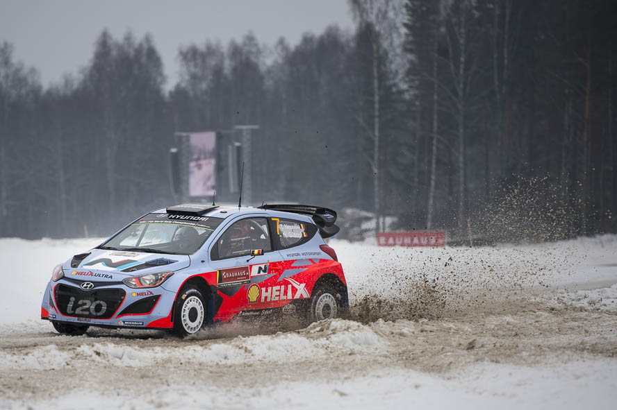 Rally Sweden 2014 Hyundai Motorsport,Hyundai i20 WRC,Kirkener 1,Motorsport,Nicolas Gilsoul,Rally,Rally Sweden,Rallye,Rallye Schweden,SS3,Thierry Neuville,WP3